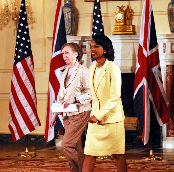 Secretary Rice with the Right Honorable Margaret Beckett, M.P., Secretary of State for Foreign and Commonwealth Affairs of the United Kingdom of Great Britain and Northern Ireland after Bilateral.